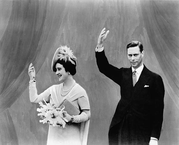 H.M. King George VI and Queen Elizabeth visit the Canadian Pavilion at the World's Fair . (New York City, United States).